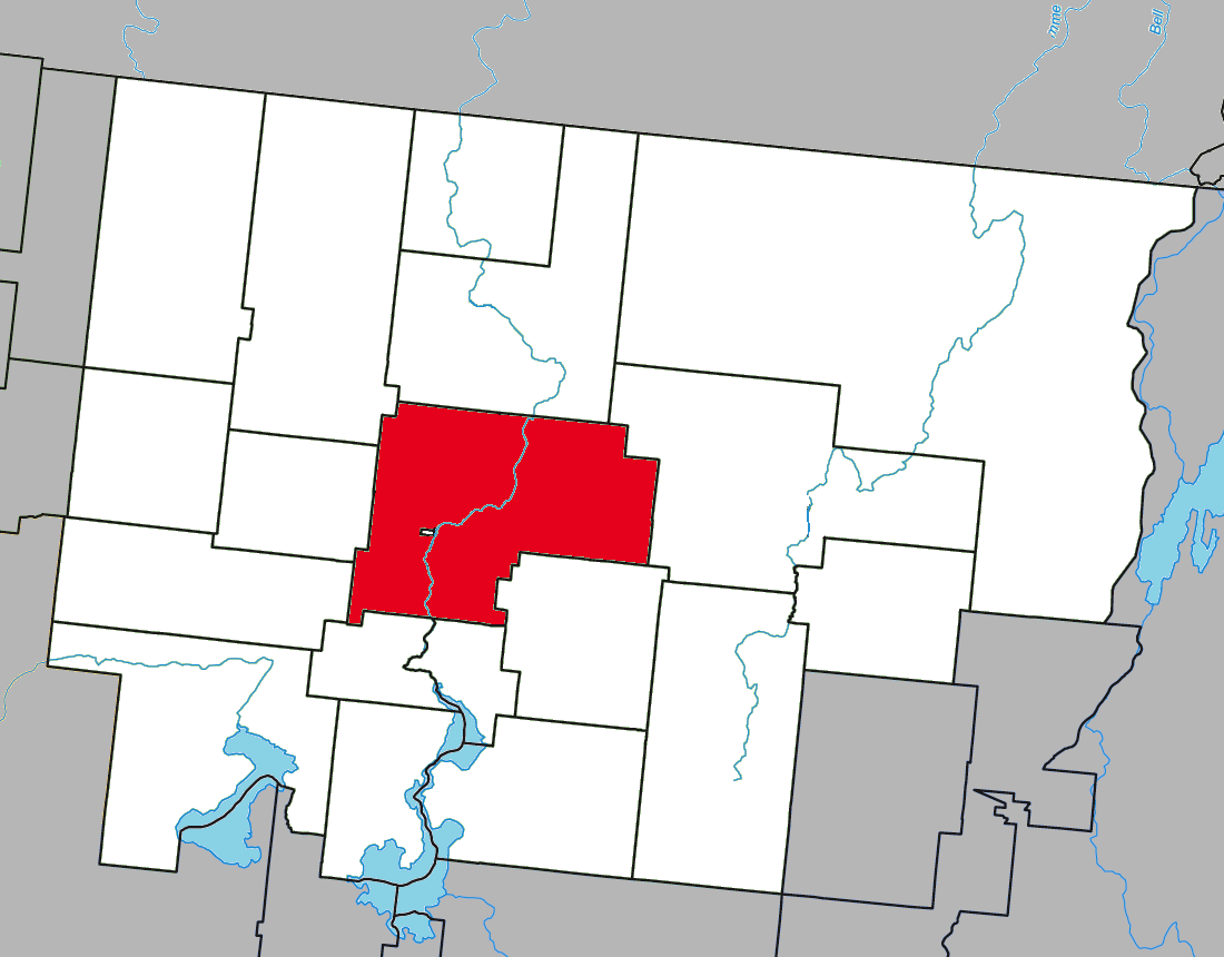 Location of Amos, Quebec within Abitibi Regional County Municipality.